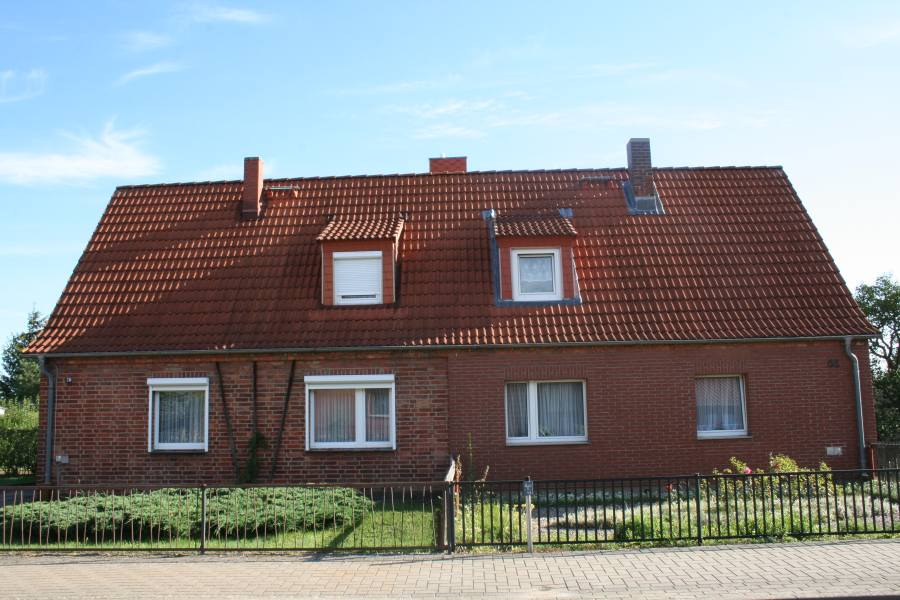 double house in Waren (Müritz) by Berlin architect Günther Paulus